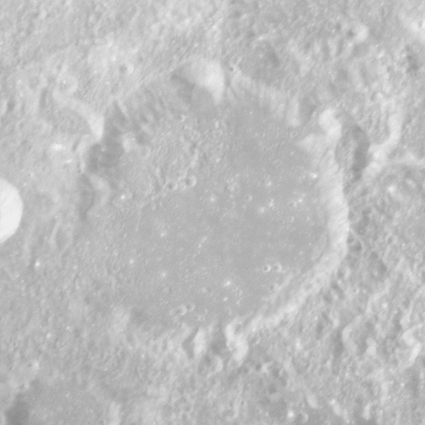 Cannon crater, on the moon. Taken by Apollo 16 panoramic camera during Trans-Earth Injection. Brightness and contrast adjusted in GIMP.